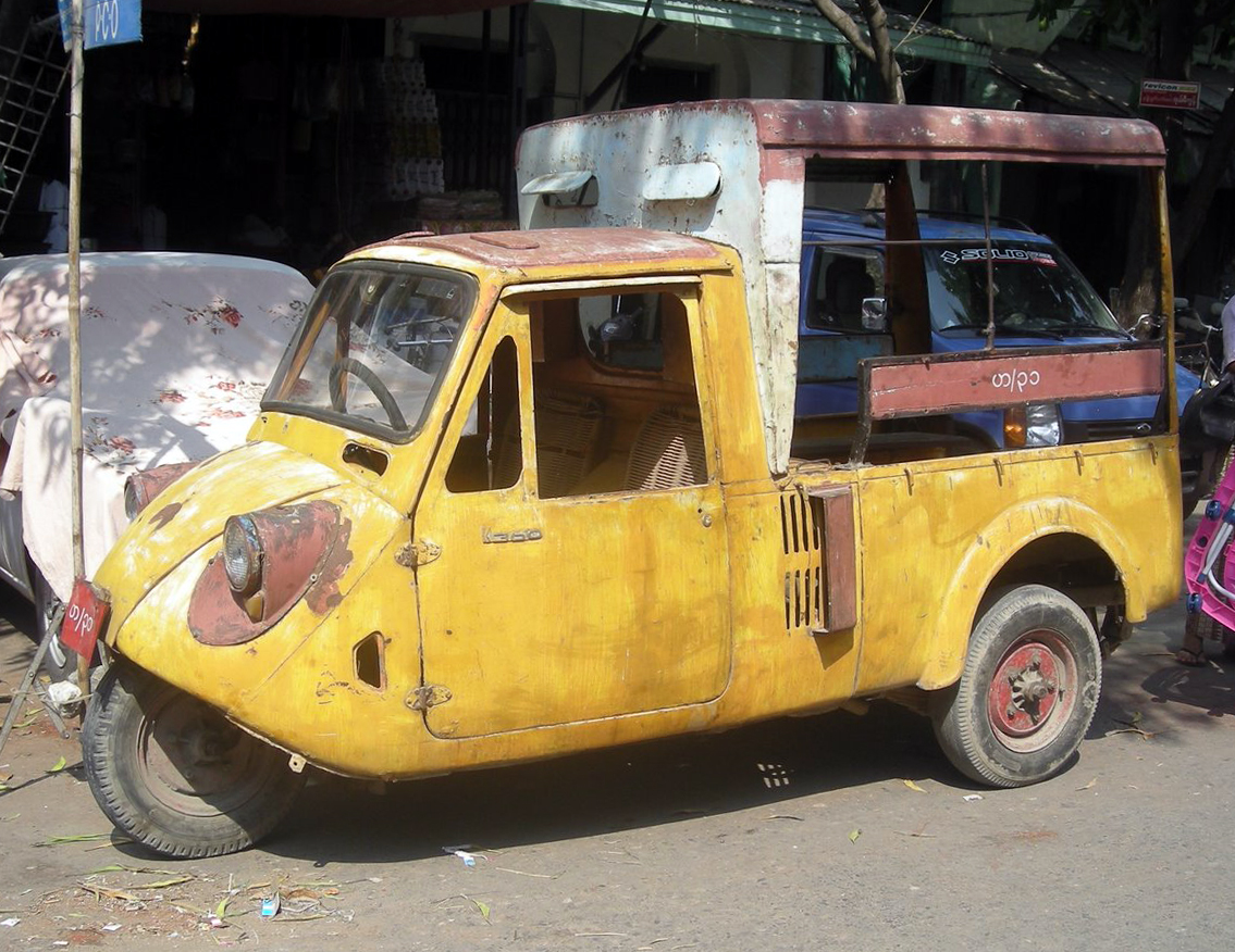 Mazda K360 in Mandalay, in need of some TLC